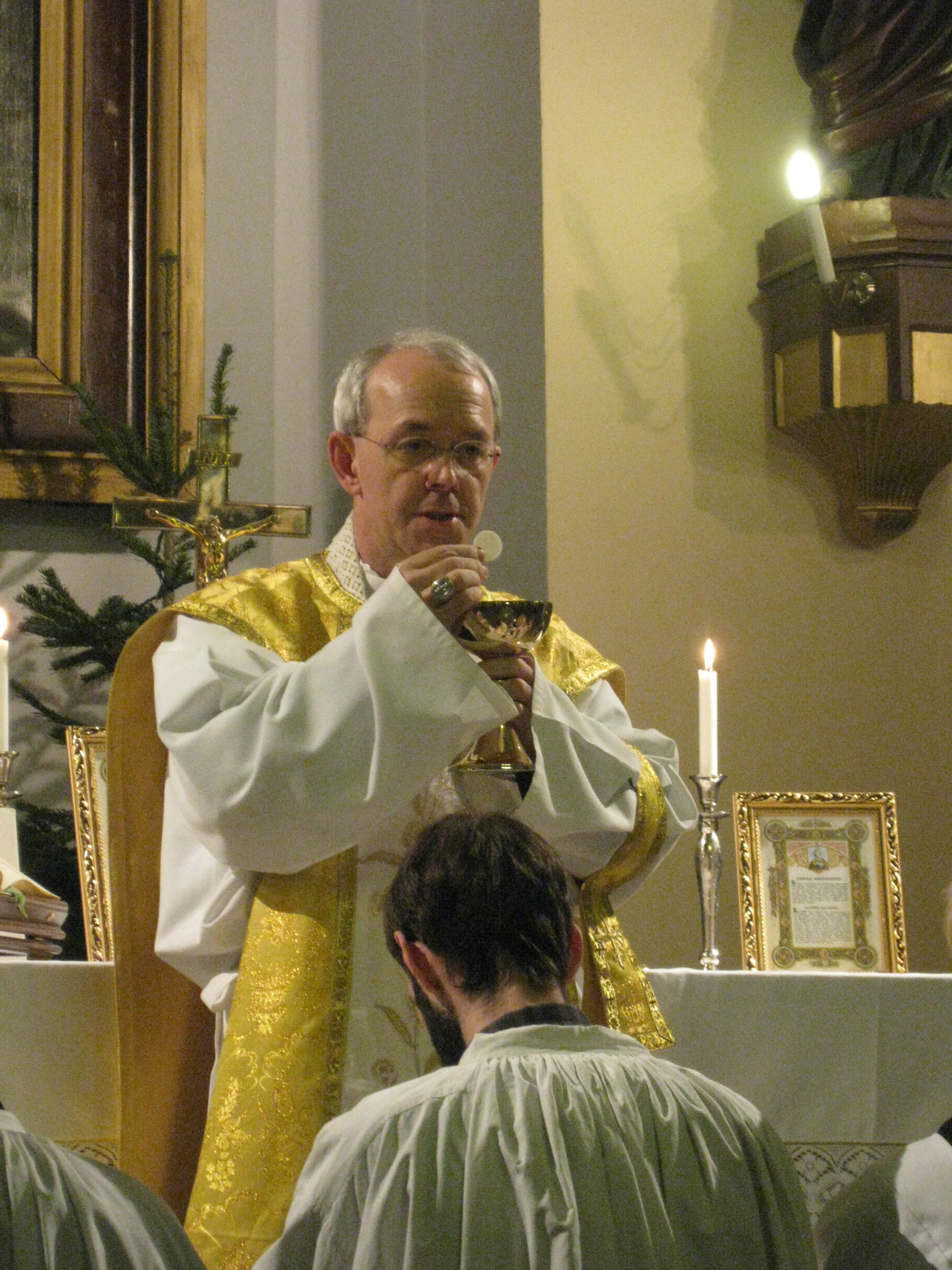 Bishop Athanasius Schneider O.R.C. celebrating Traditional Latin Mass in Tallinn, Estonia.